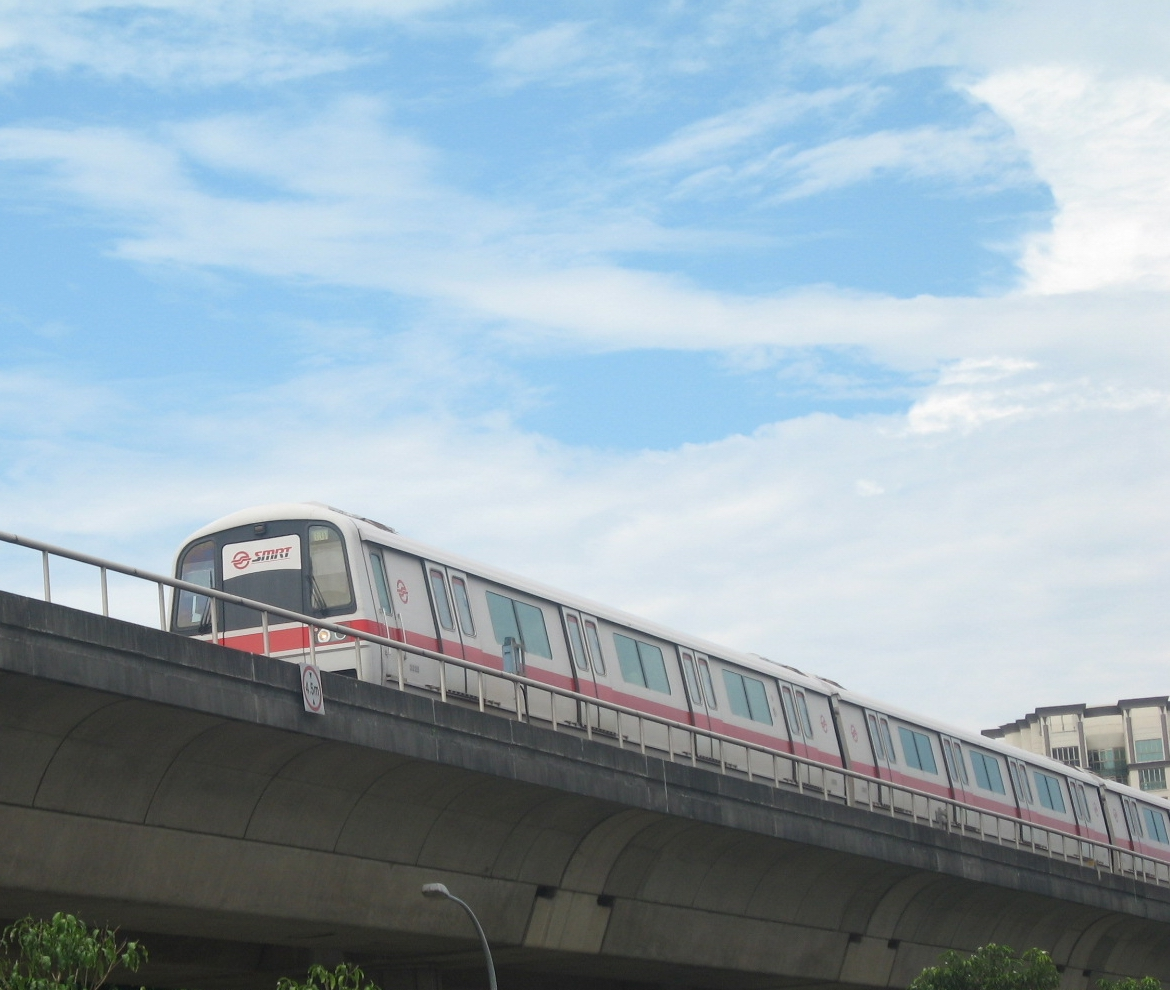 SMRT Trains Siemens C651 cars exterior.